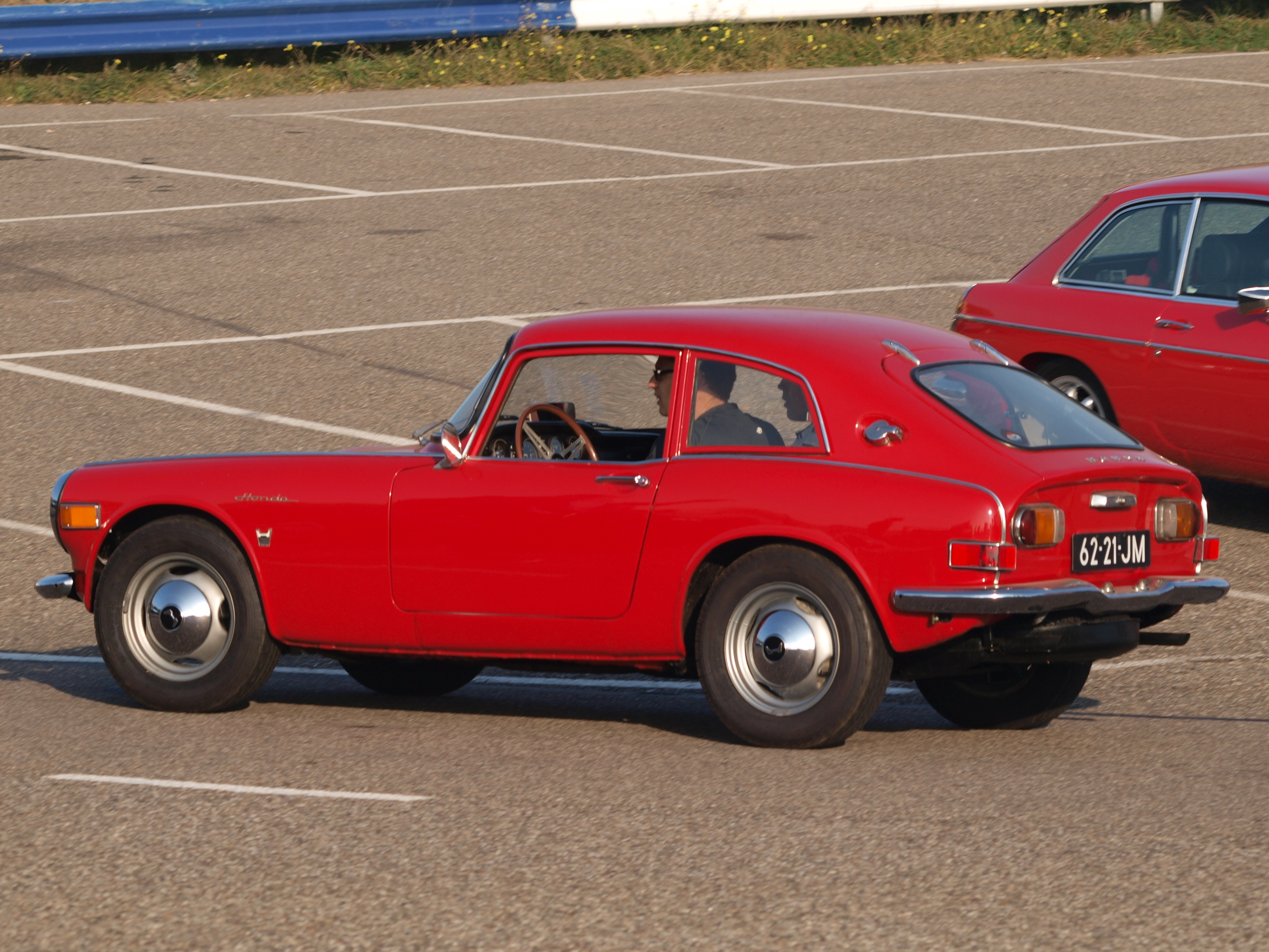 Photographed at the Nationaal Oldtimer Festival Zandvoort 2009, The Netherlands. OLYMPUS DIGITAL CAMERA